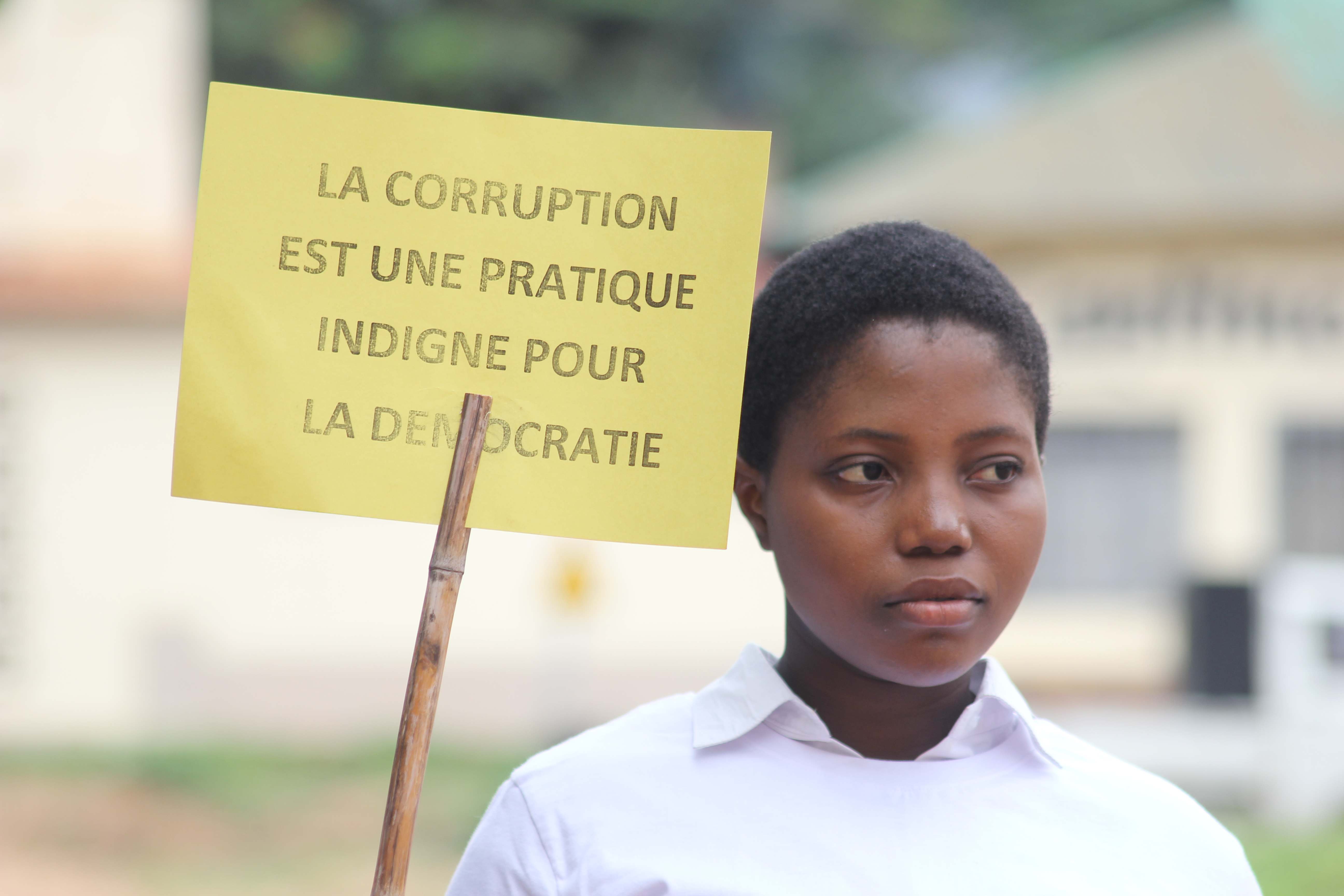 On 8 and 9 December 2018, CERC worked with 35 secondary schools in Uvira to engage students in the commemoration of the International Anti-Corruption Day under the slogan of “United Against Corruption for Development, Peace and Security” This is an image with the theme "Play" from: Democratic Republic of the Congo